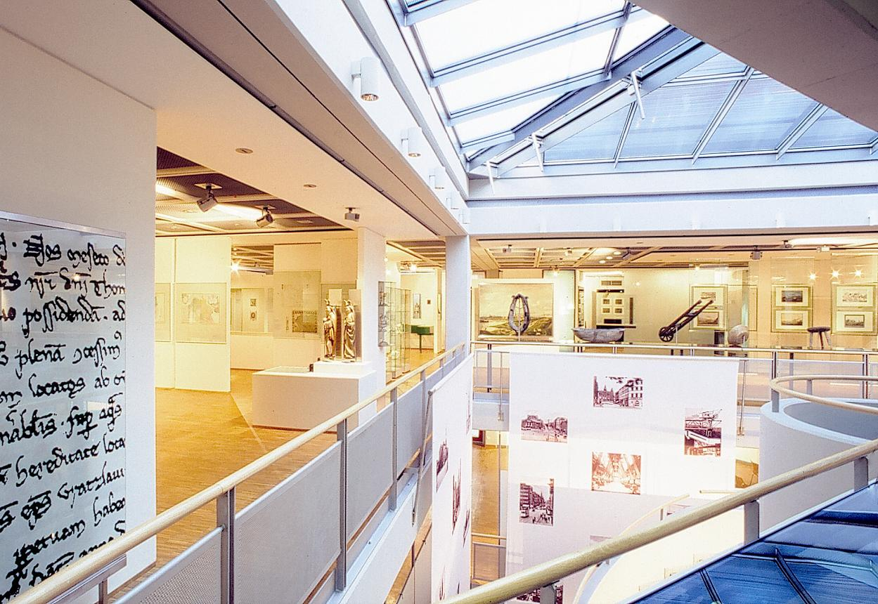 Permanent exhibition in the first floor of the Upper-Silesian Provincial Museum in Ratingen-Hösel